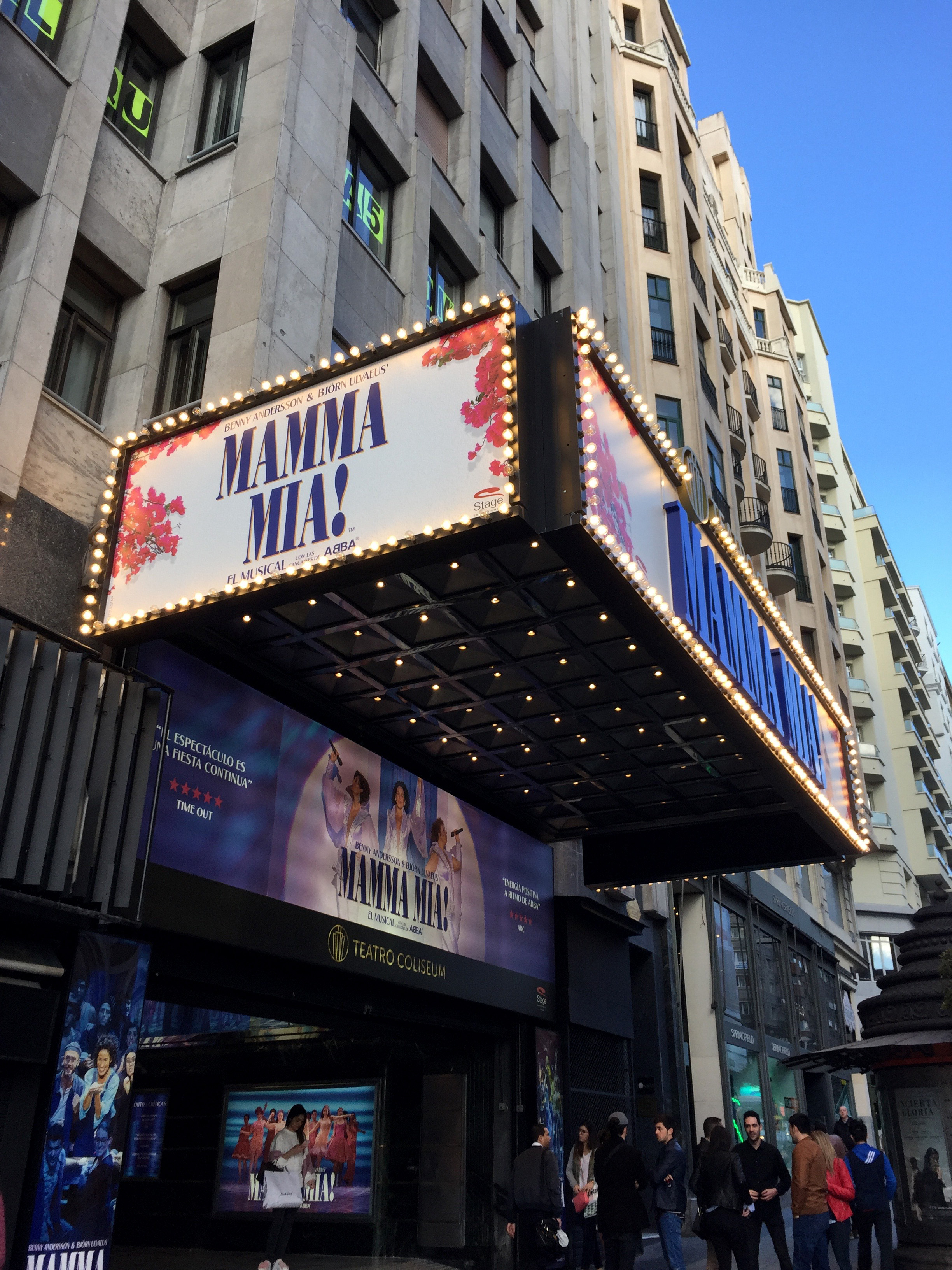 Mamma Mia! at Teatro Coliseum in Madrid